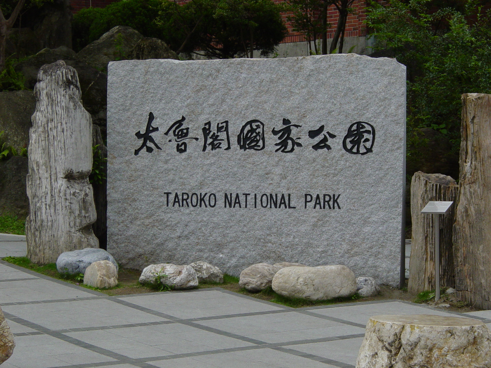 Taroko National Park stele.